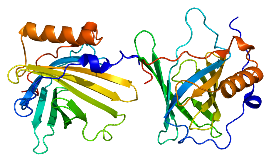 Structure of the LCN2 protein. Based on PyMOL rendering of PDB 1dfv.